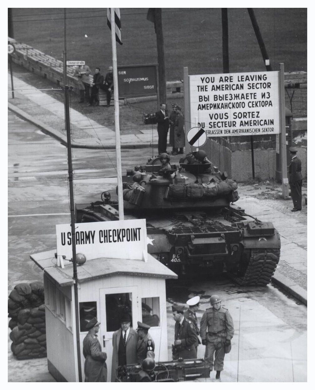 Oct. 25, 1961. U. S. tanks move up to Checkpoint Charlie following a dispute with East Germany over American access to East Berlin. Checkpoint Charlie was the name given by the Western Allies to the best-known Berlin Wall crossing point between East Berlin and West Berlin during the Cold War. From the booklet "A City Torn Apart: Building of the Berlin Wall." For more information, visit CIA's Historical Collections webpage (